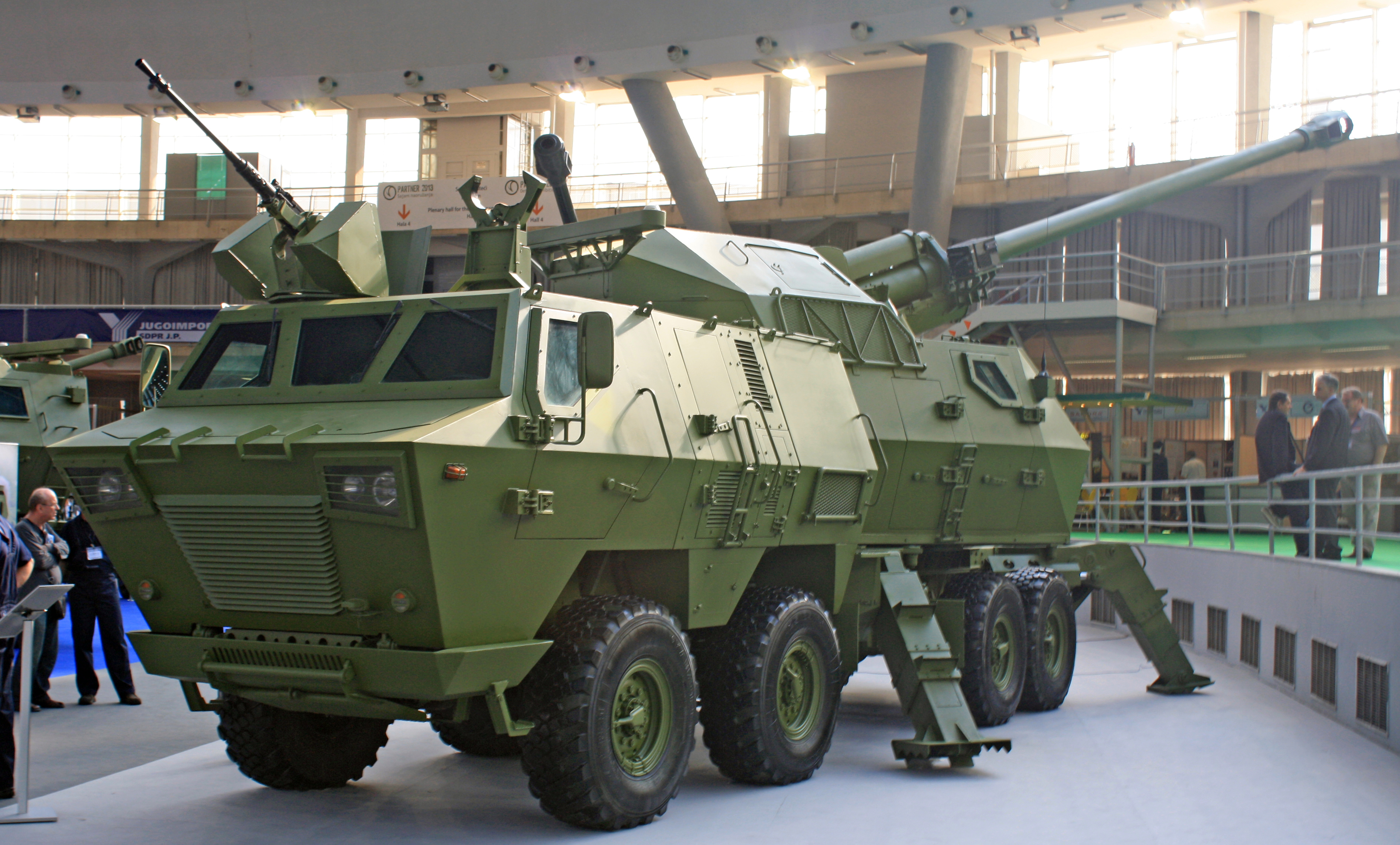 Nora B-52K-1 self-propelled gun-howitzer on display at "Partner 2013" military fair.